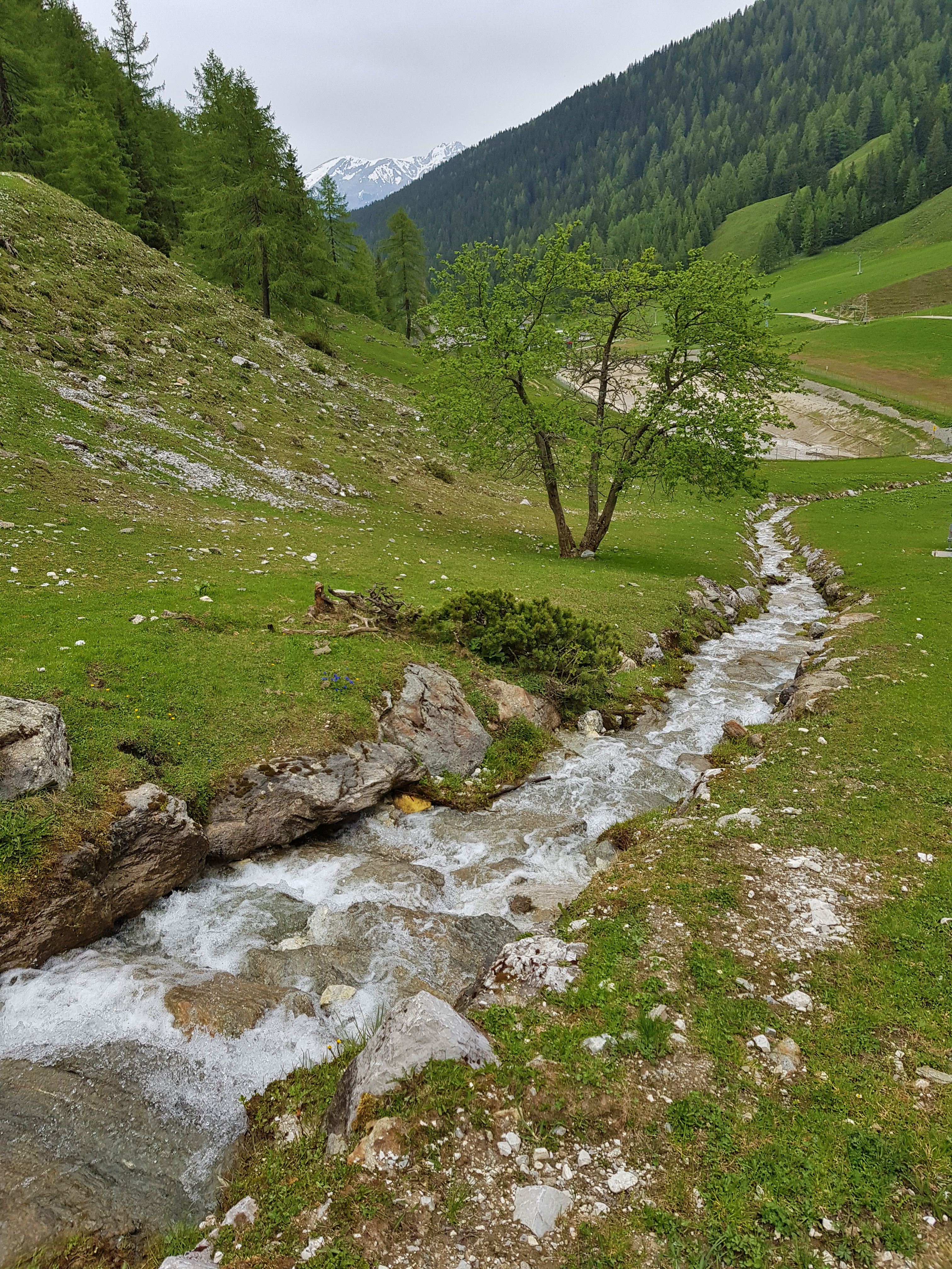 Axamer Bach in der Axamer Lizum